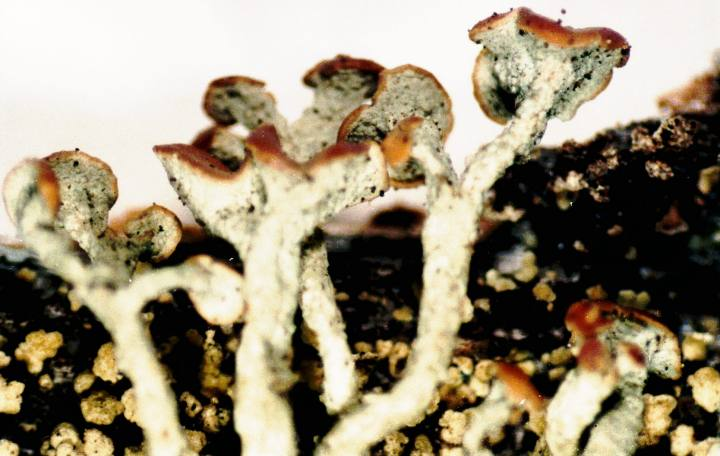 Cladonia botrytes (K.G. Hagen) Willd., 1787 (photograph of a herbarium specimen taken through a dissecting microscope (x16) showing podetia topped with pale beige apothecia) Growing on old wood in a sunny exposure along the N side of the Montreal River, E side of Highway 17, Ontario, Canada; collected and identified by Richard E. Riefner (No. 81-501, 23 Jul 1981); specimen is now in the Lichen Herbarium of the New York Botanical Garden.